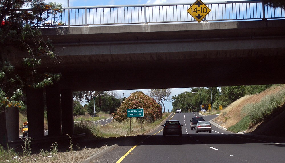 Westbound traffic on Central Expressway (County Route G6) in Sunnyvale, at the Mathilda Avenue interchange.